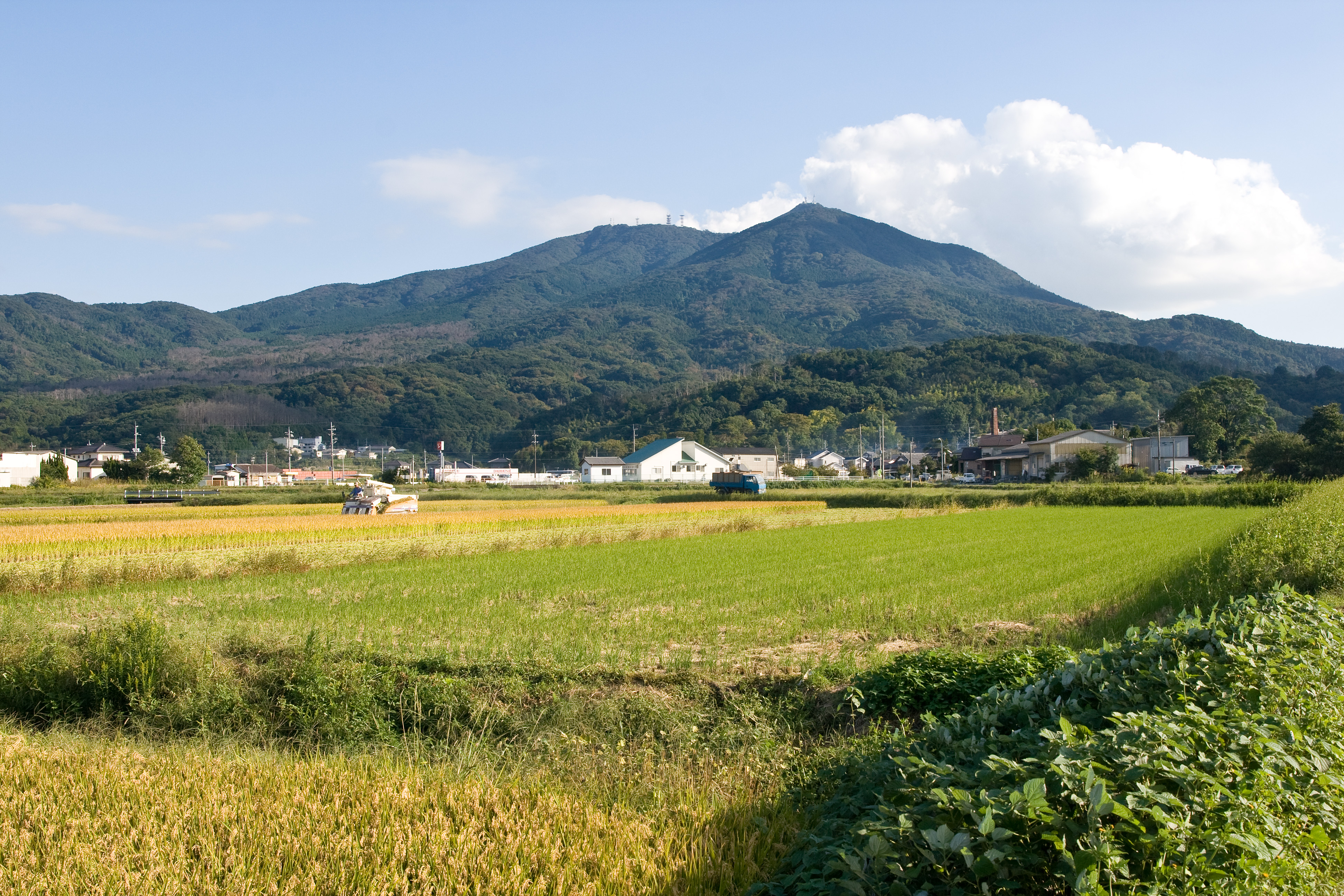 Mount Tsukuba as seen from Sakuragawa City, Ibaraki Pref., Japan.